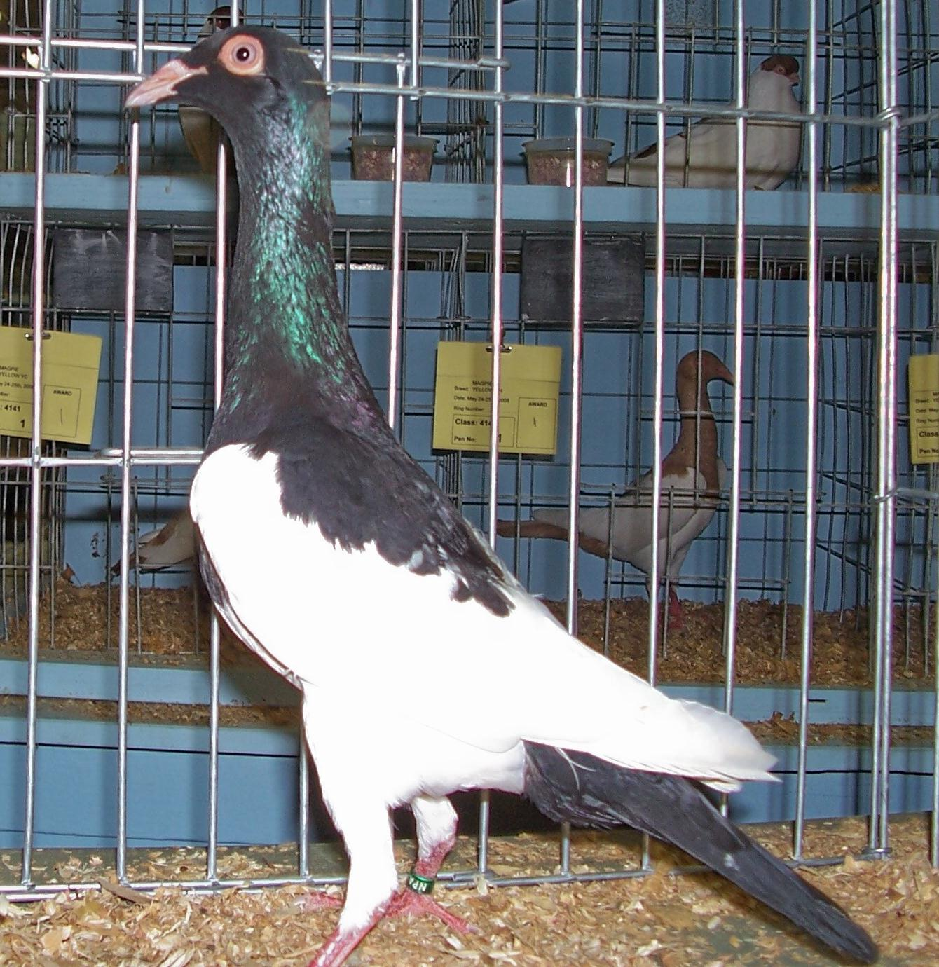 An English Magpie at the Queensland State Show. This pigeon is owned by John Thomas.